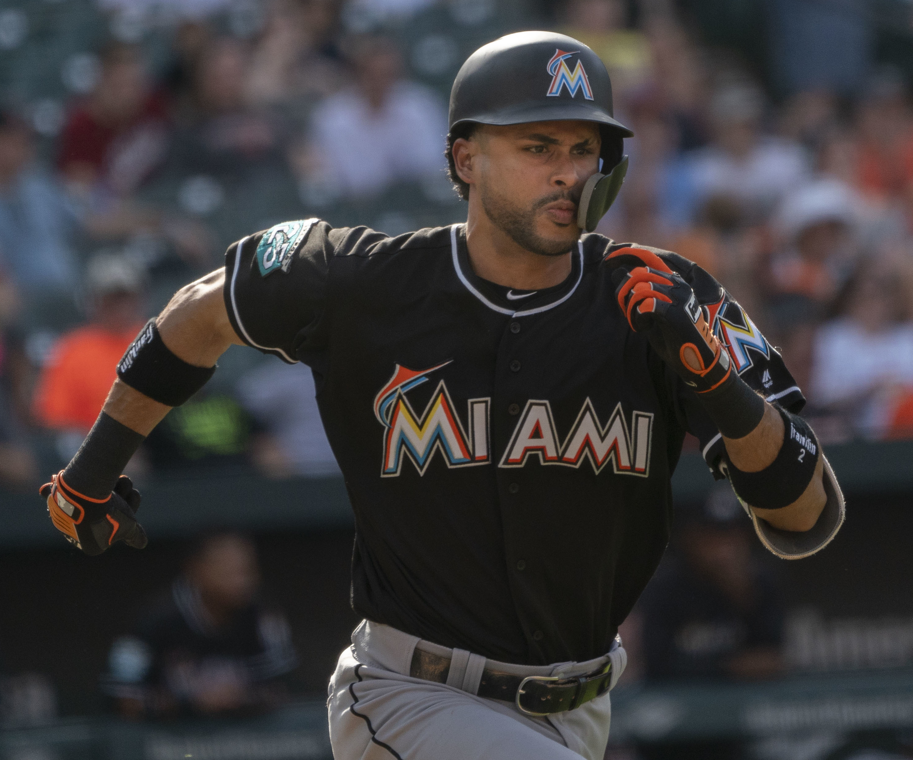 Yadiel Rivera of the Miami Marlins during a game at Camden Yards in Baltimore against the Baltimore Orioles in 2018